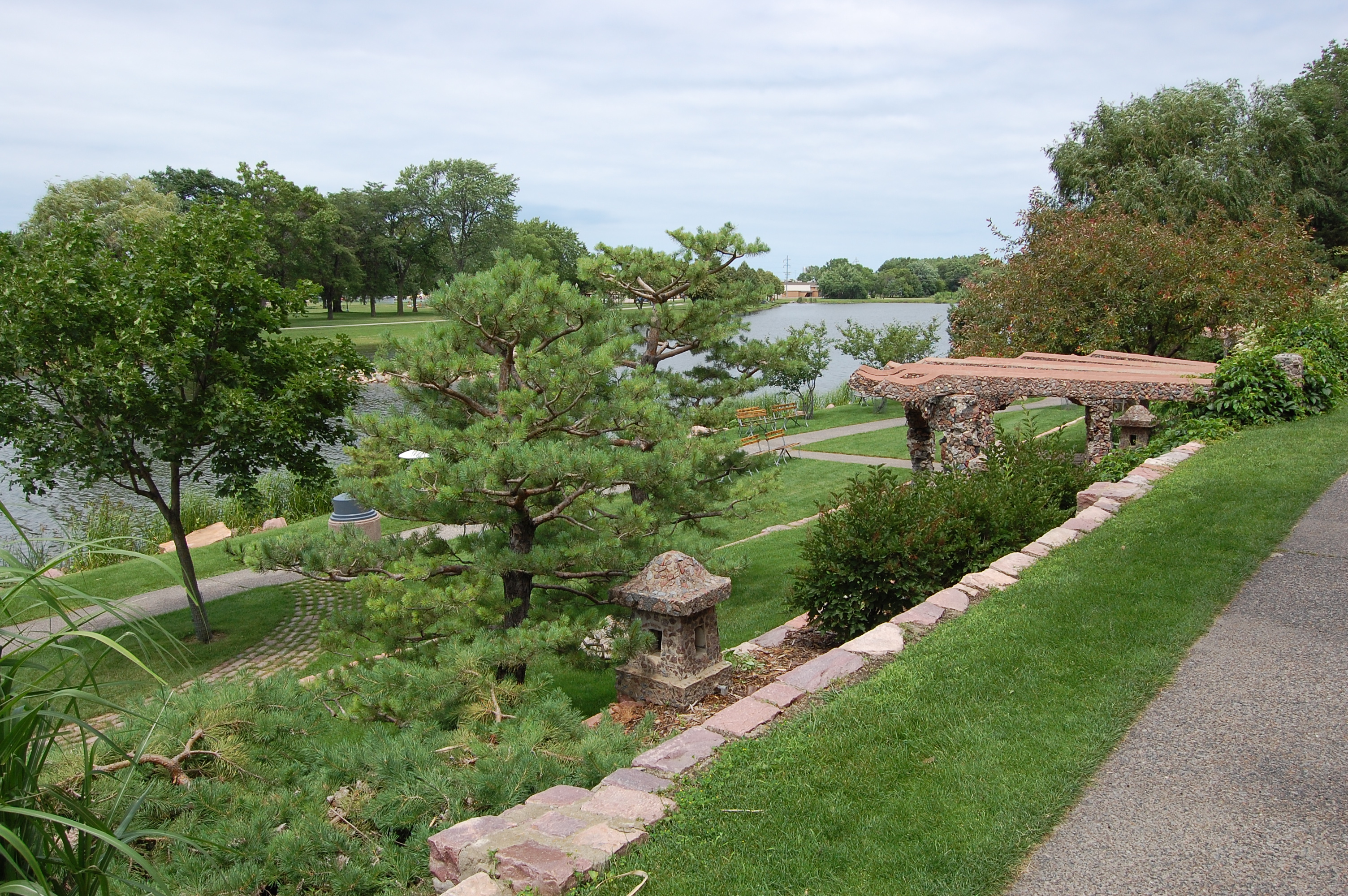 Japanese Gardens in Terrace Park, in Sioux Falls, South Dakota, United States.